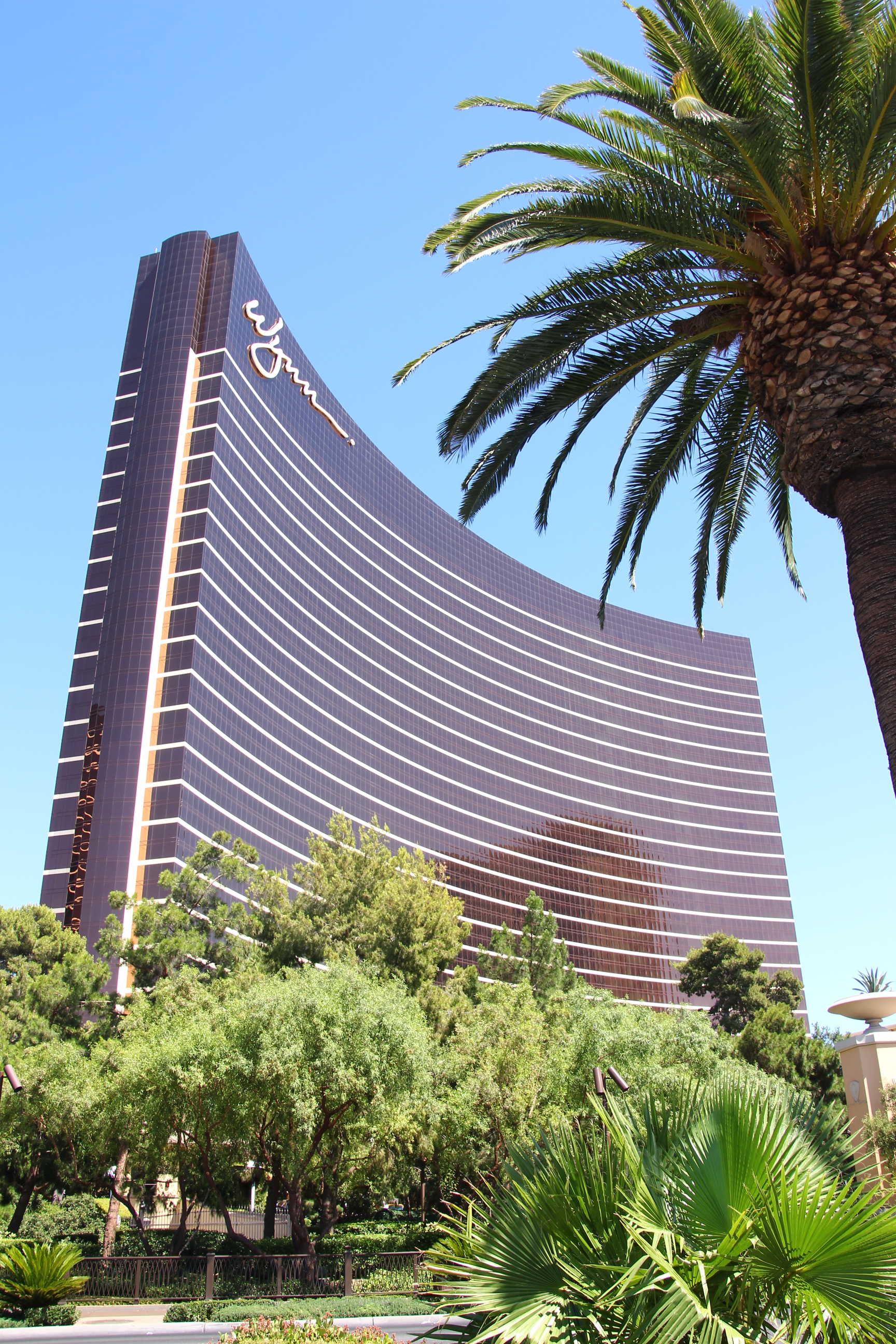 The Wynn Las Vegas hotel and casino in Las Vegas, Nevada.